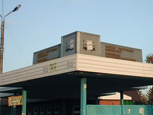 Motorbuilders square in Kazan, info on stop